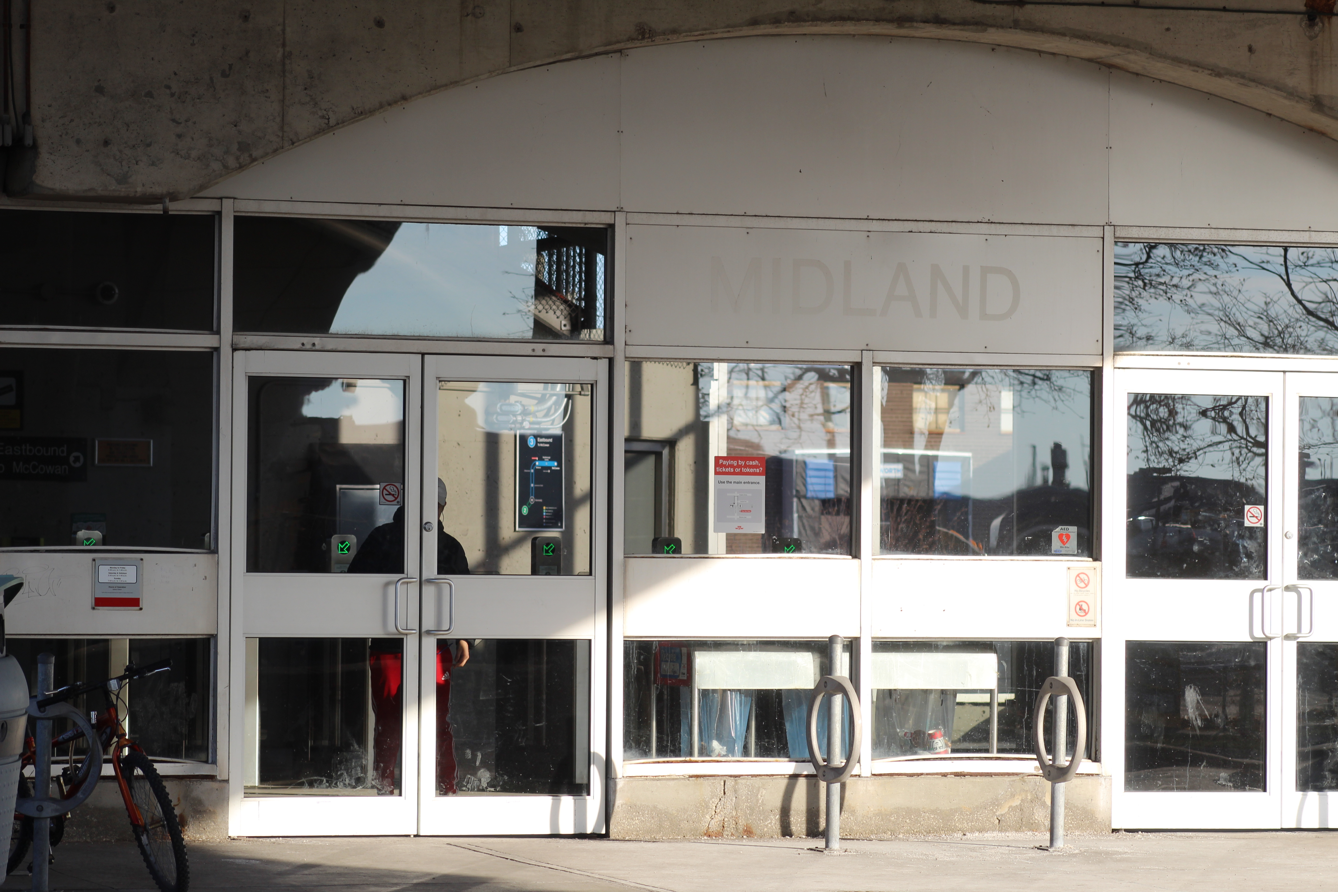 Midland secondary entrance